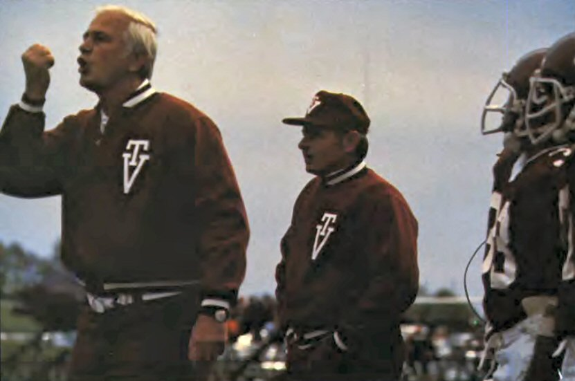 Defensive coordinator Tom Harper (left) and head football coach Bill Dooley (middle) of the Virginia Tech Hokies